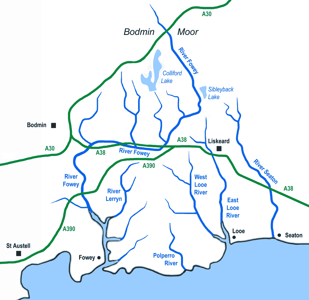 Sketch map of the rivers of south Cornwall including River Fowey, River Seaton, River Lerryn, Polperro River, East Looe River, and West Looe River